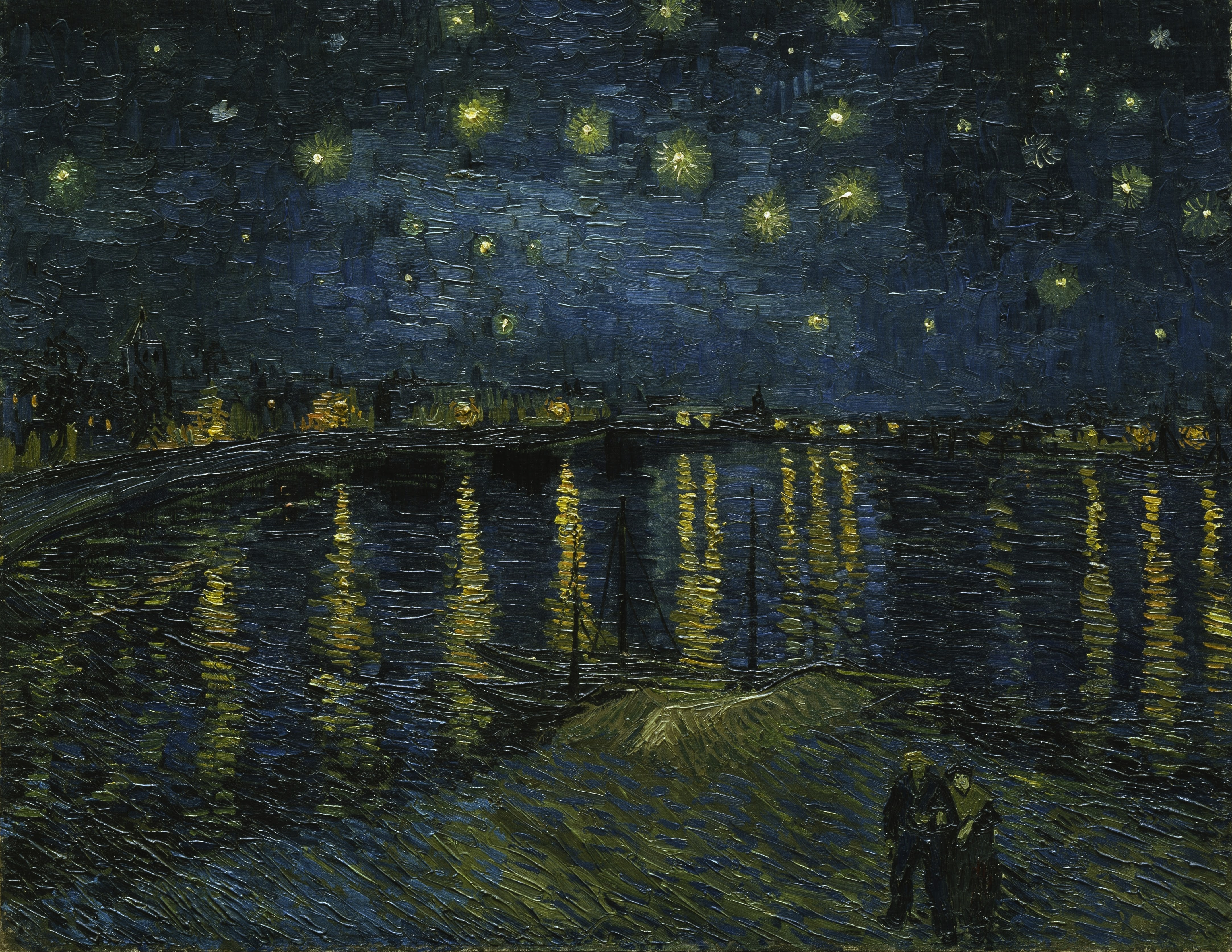 Vincent van Gogh - Starry Night on the Rhone, 1888